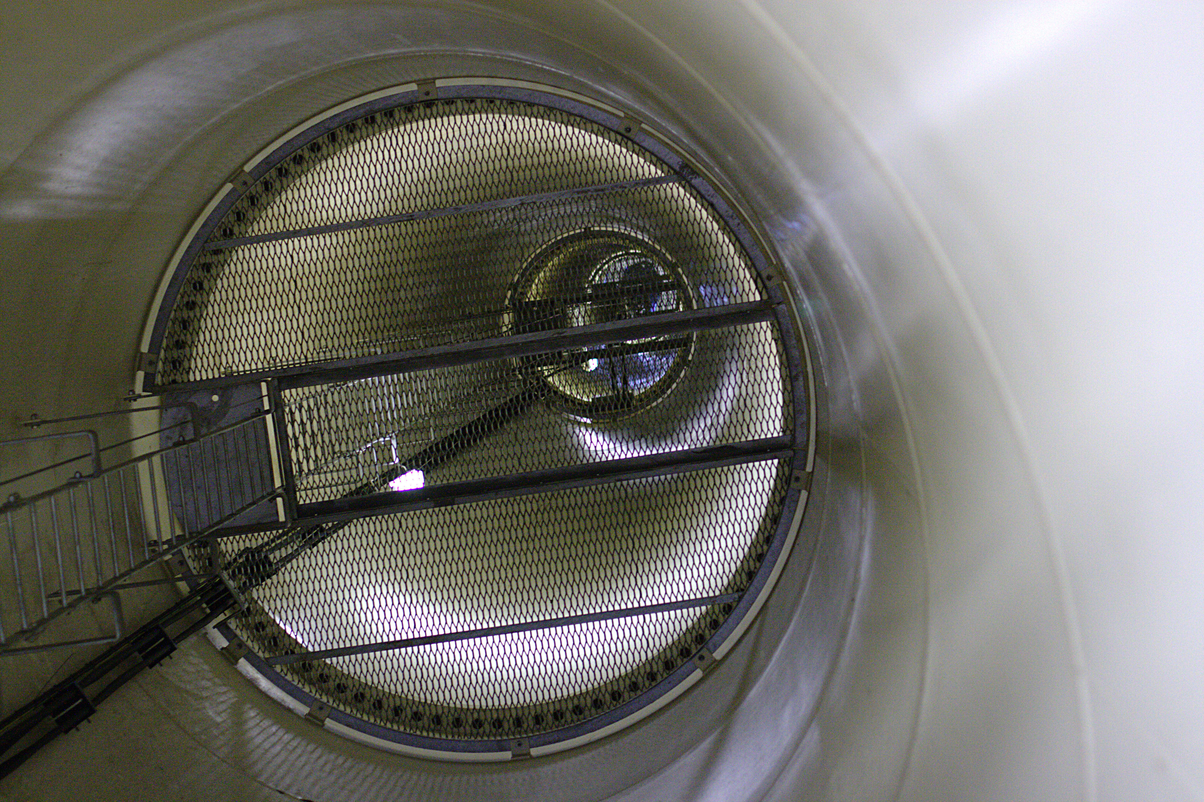 A Vestas wind turbine tower internals, in Byron, Fond du Lac County, Wisconsin.